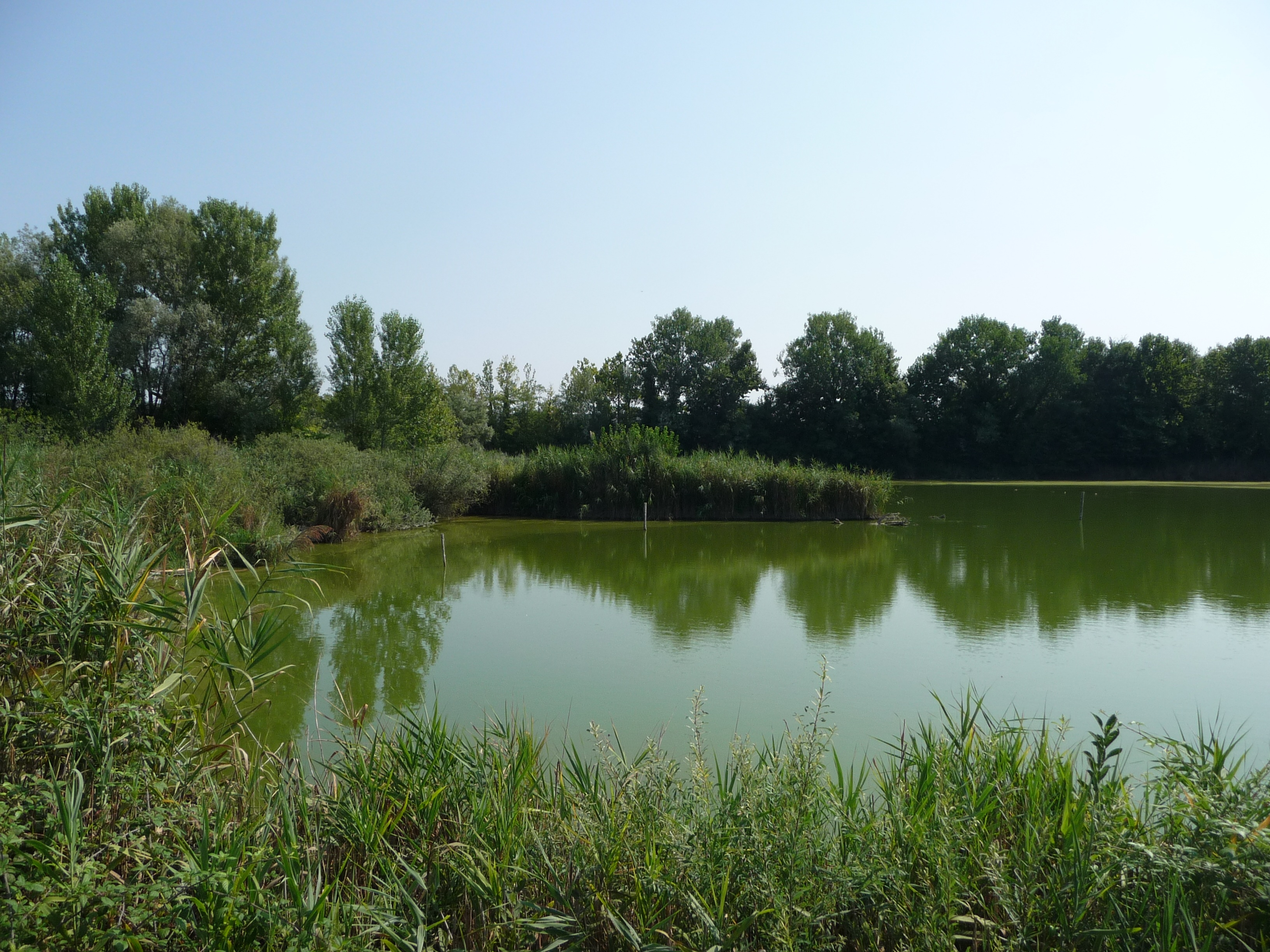 WWF Oasis of Stagni di Casale, Vicenza, Italy.